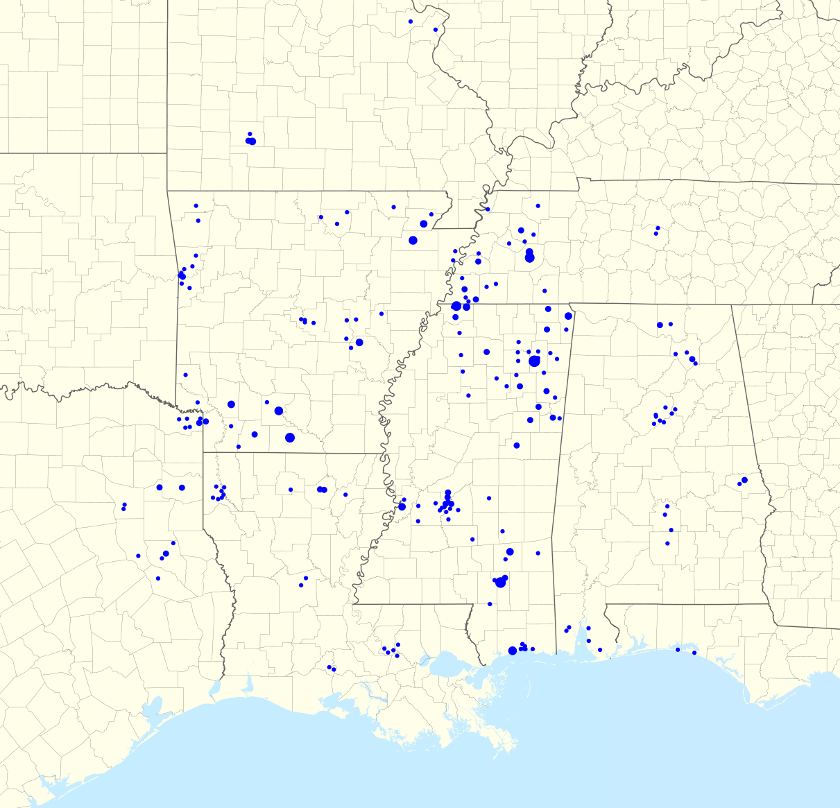 Footprint of BancorpSouth. Zip codes with more than one branch have progressively larger points.